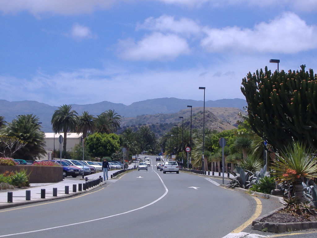 Las Palmas de Gran Canaria University (ULPGC), Las Palmas de Gran Canaria, Canary Islands. One of the roads traversing Tafira Campus of the Las Palmas de Gran Canaria University. That's the high part, behind of me is computing, after Marine Sciences, at right Architecture, at left Telecommunications and at the bottom Engineerings. None of the buildings is in the photo, fortunately... I liked the photo because of the palms, the vegetation, and the mountains and the sky at the bottom.